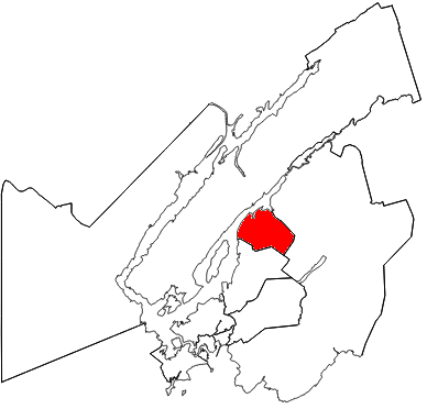 The riding of Quispamsis in relation to other electoral districts in Greater Saint John.